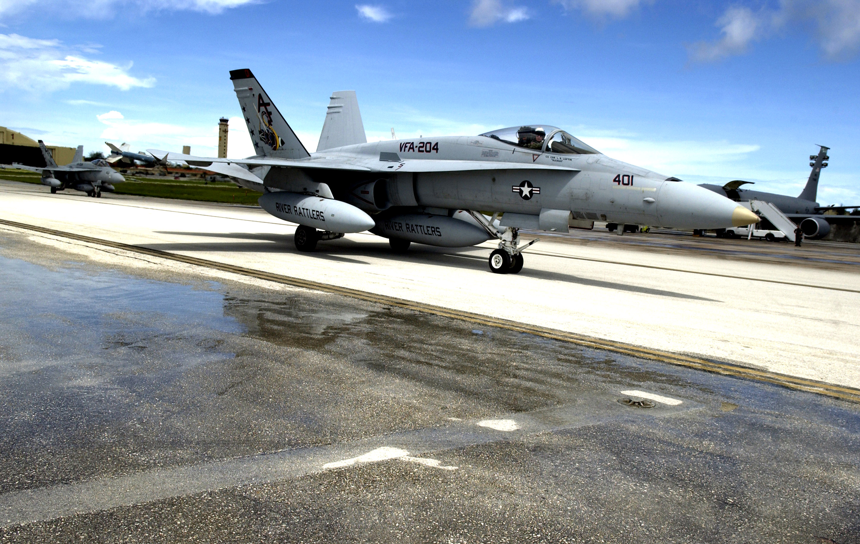 U.S. Naval Reserve F/A-18A+ Hornet fighters from fighter-bomber squadron VFA-204 River Rattlers, based at the Joint Reserve Base in New Orleans, Louisiana (USA), arrive to take part in the Valiant Shield 2007 exercise on 6 August 2007 at Andersen Air Force Base, Guam (USA).